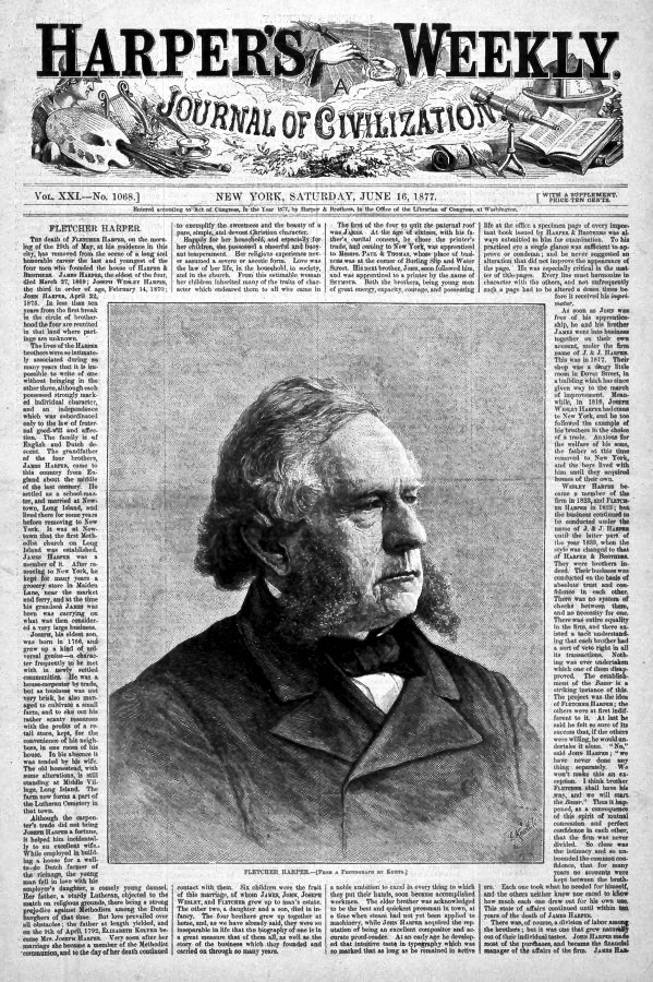 Cover page of Harper's Weekly from June 16, 1877 with Fletcher Harper Obituary